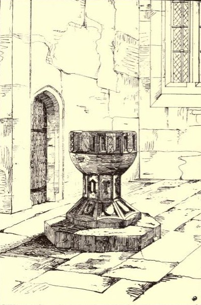 Drawing of a 15th century font at the Church of St Anne, Catterick, North Yorkshire, England.